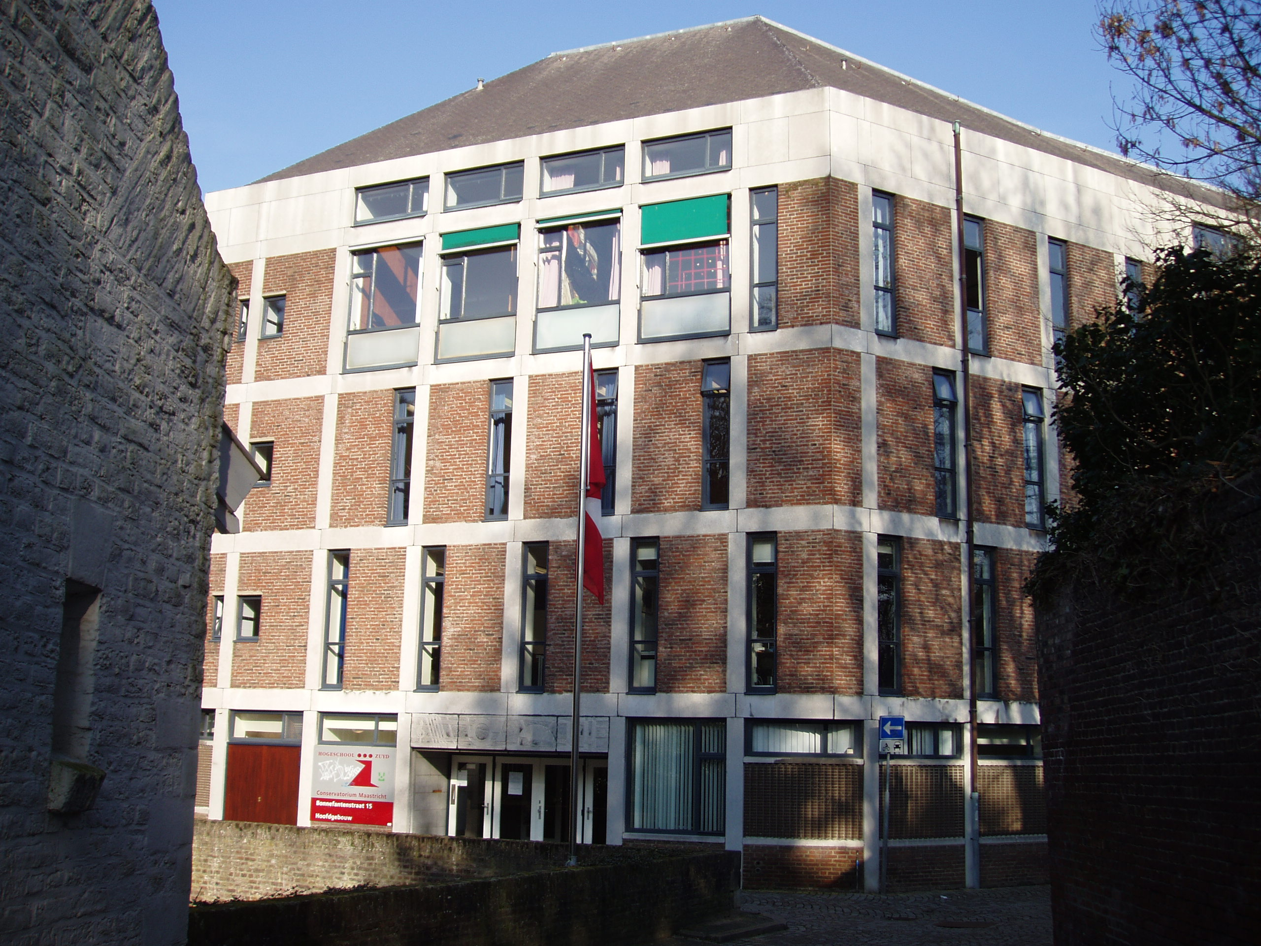 Conservatorium, location of 2 watermills, Maastricht, Limburg, Netherlands